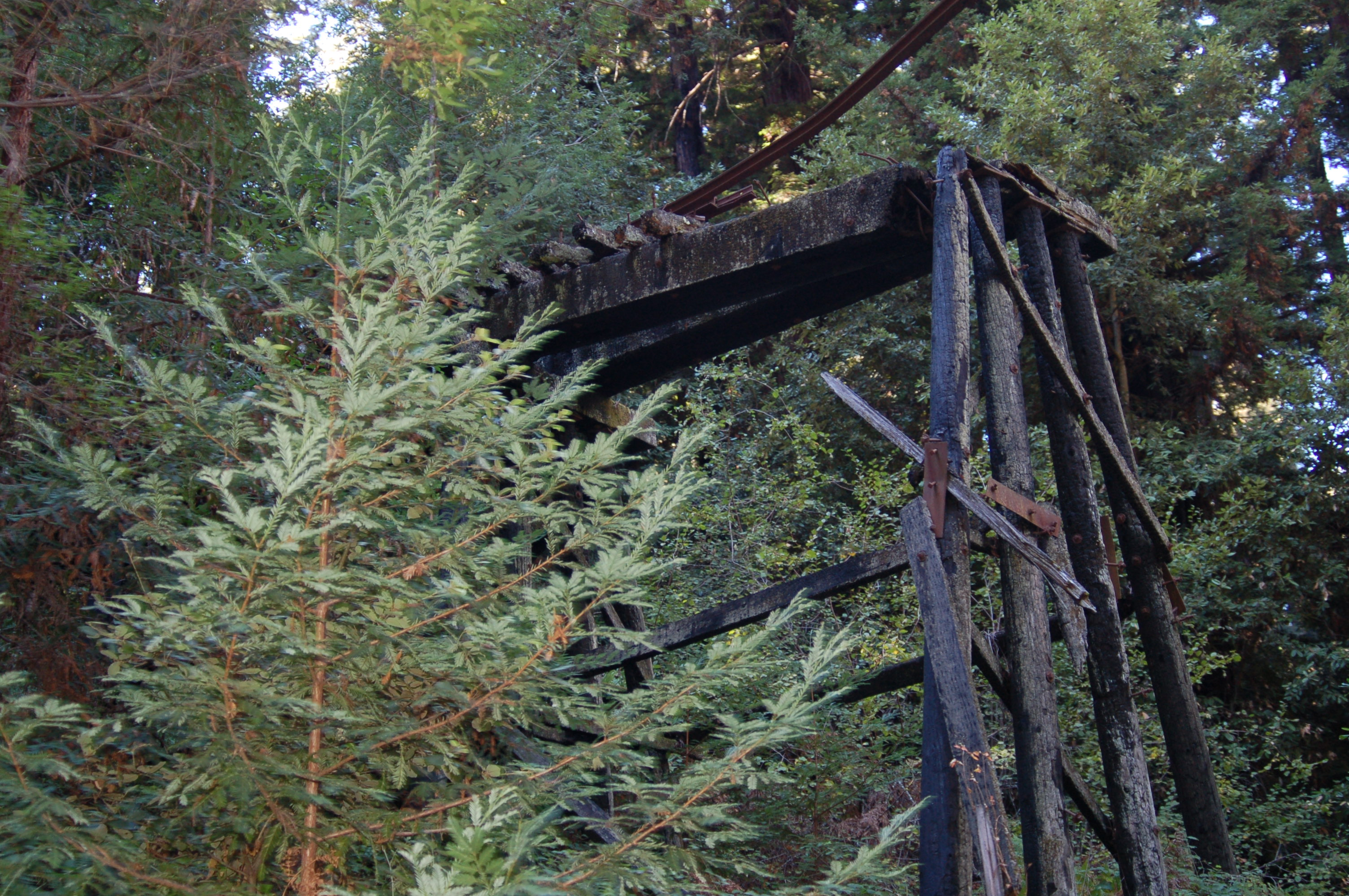 Roaring Camp and Big Trees Railroad. Uphill view of the burned-out skeleton of the trestle burned in 1976. (Note the damage to the rails).